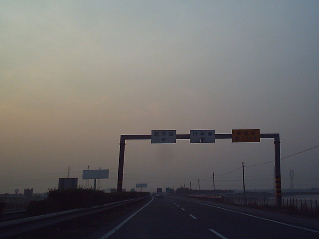 Jingjintang Expressway -- Tanggu beginnings.; Jingjintang Expressway (Tanggu segment, taken in October 2004). Note the nonstandard, Chinese-only traffic signs.